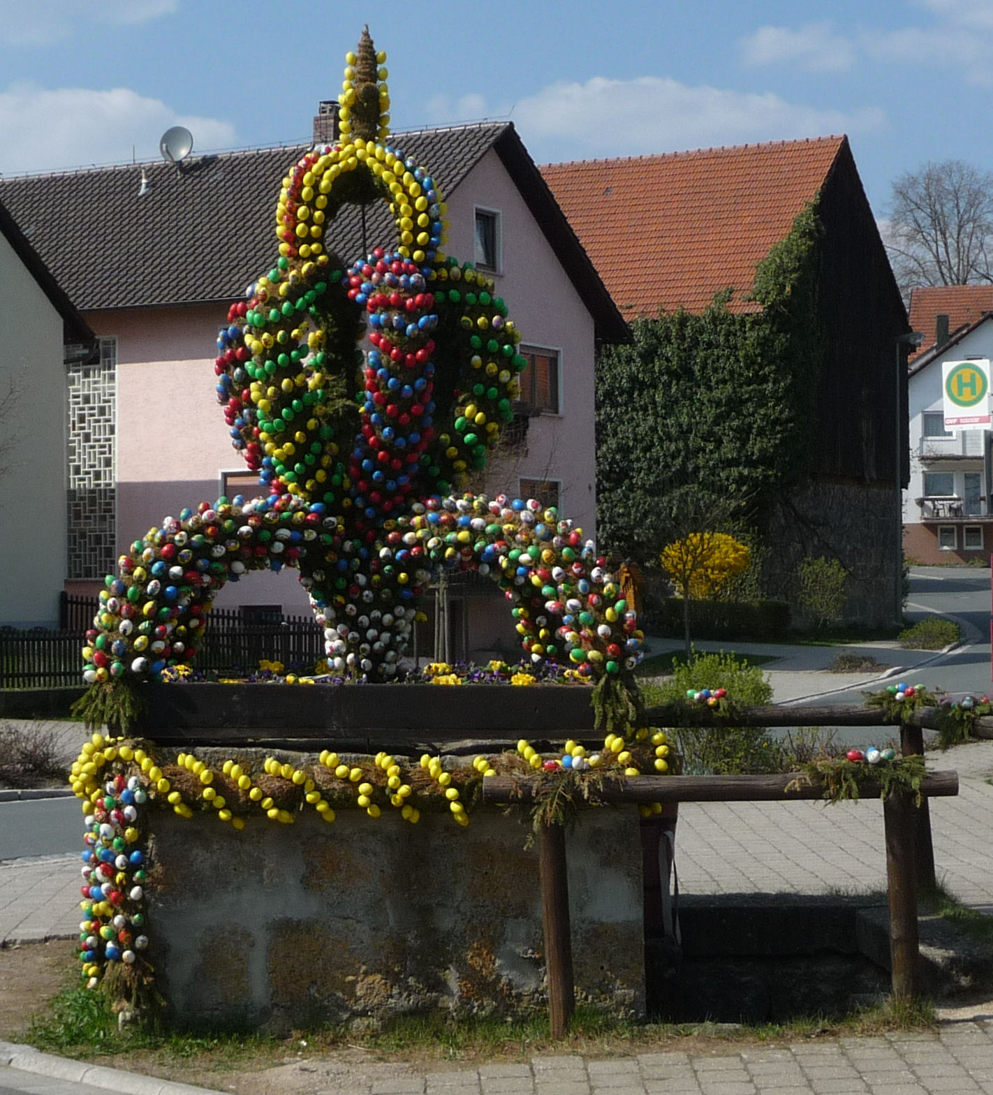 Teuchatz in Landkreis Bamberg, Germany